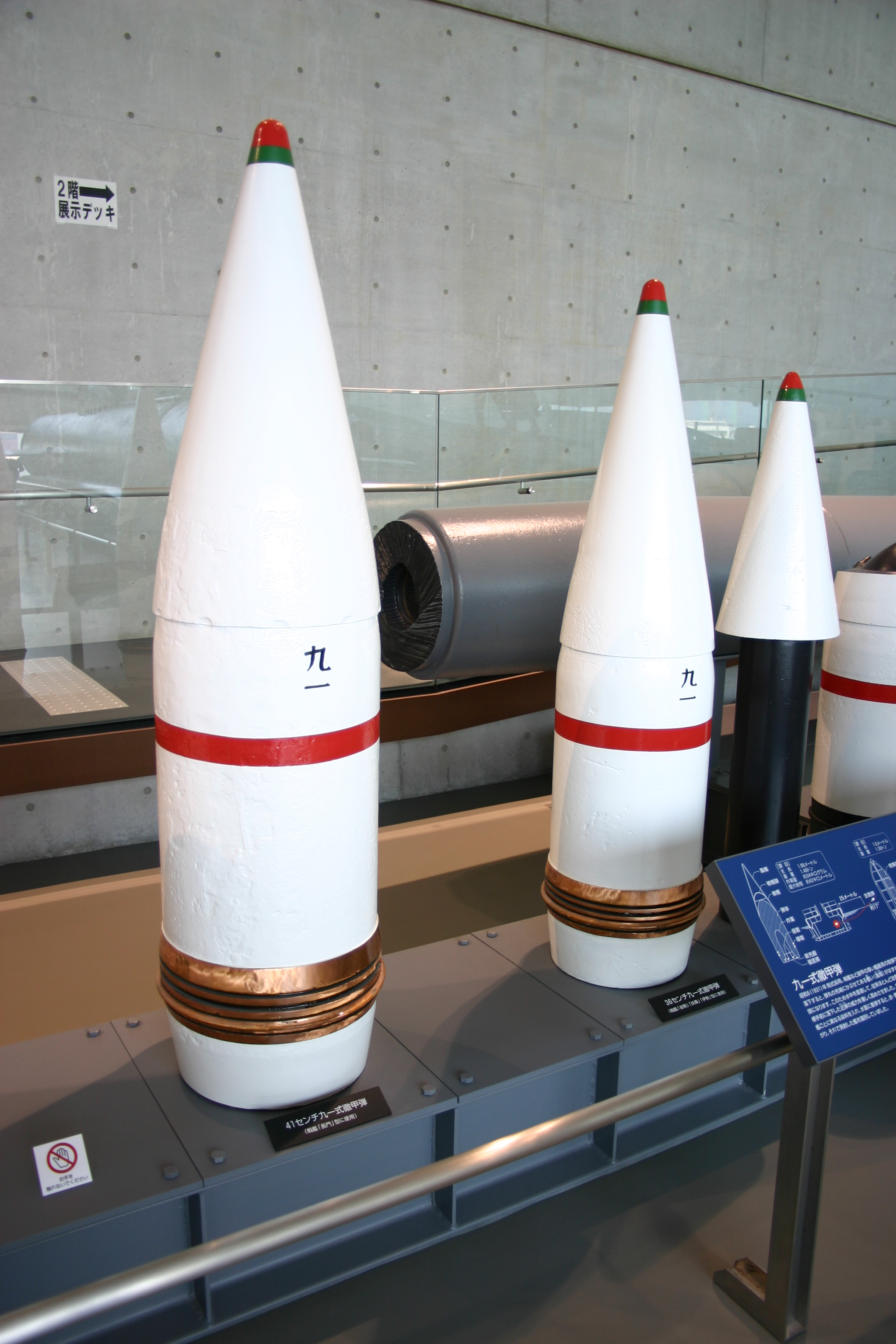 Type 91 armor-piercing shot and shell. Left : 41 cm (16.1 inch); right : 36 cm (14 inch).